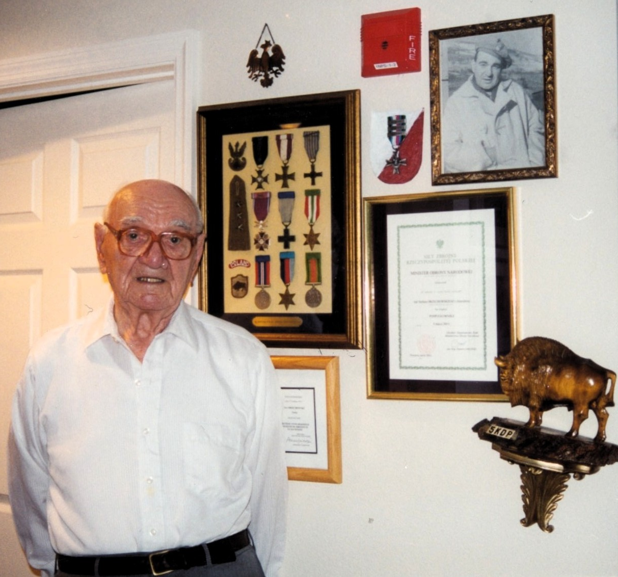 Stefan Orzechowski photograph in his "Patriotic Spot", Brandon, Florida, 3 December 2001